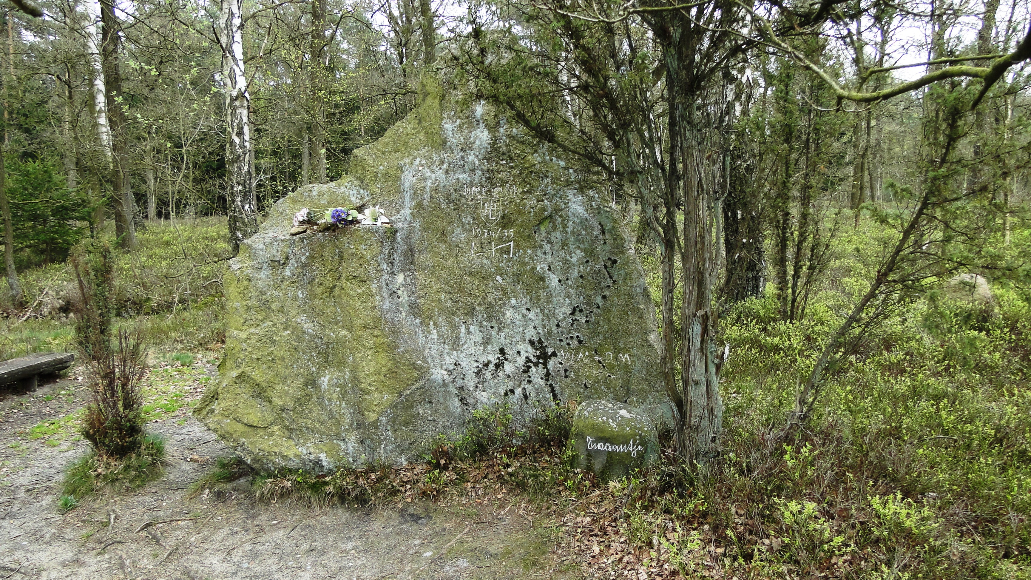 Monument marking the spot where the purported remains of Hermann Löns were buried 1933-35 on the B3 road near Barrl, Schneverdingen